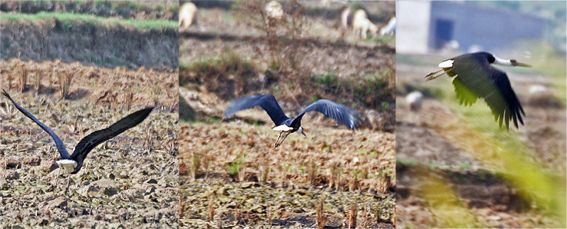 Woolly-necked Stork Ciconia episcopus at/ near Hodal in Faridabad District of Haryana, India.